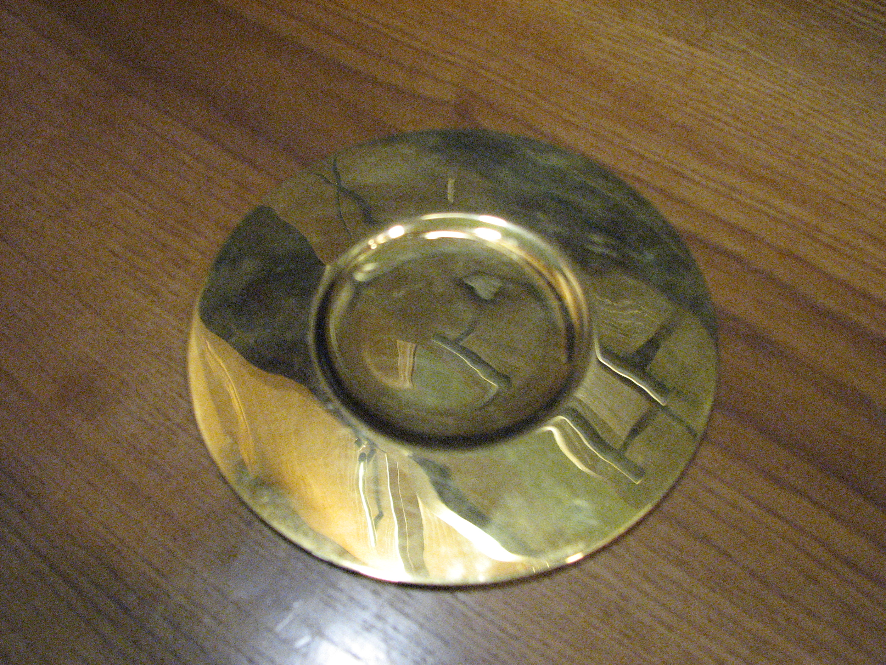 The flat Chalice paten used during the Eucharist in the Catholic Church.